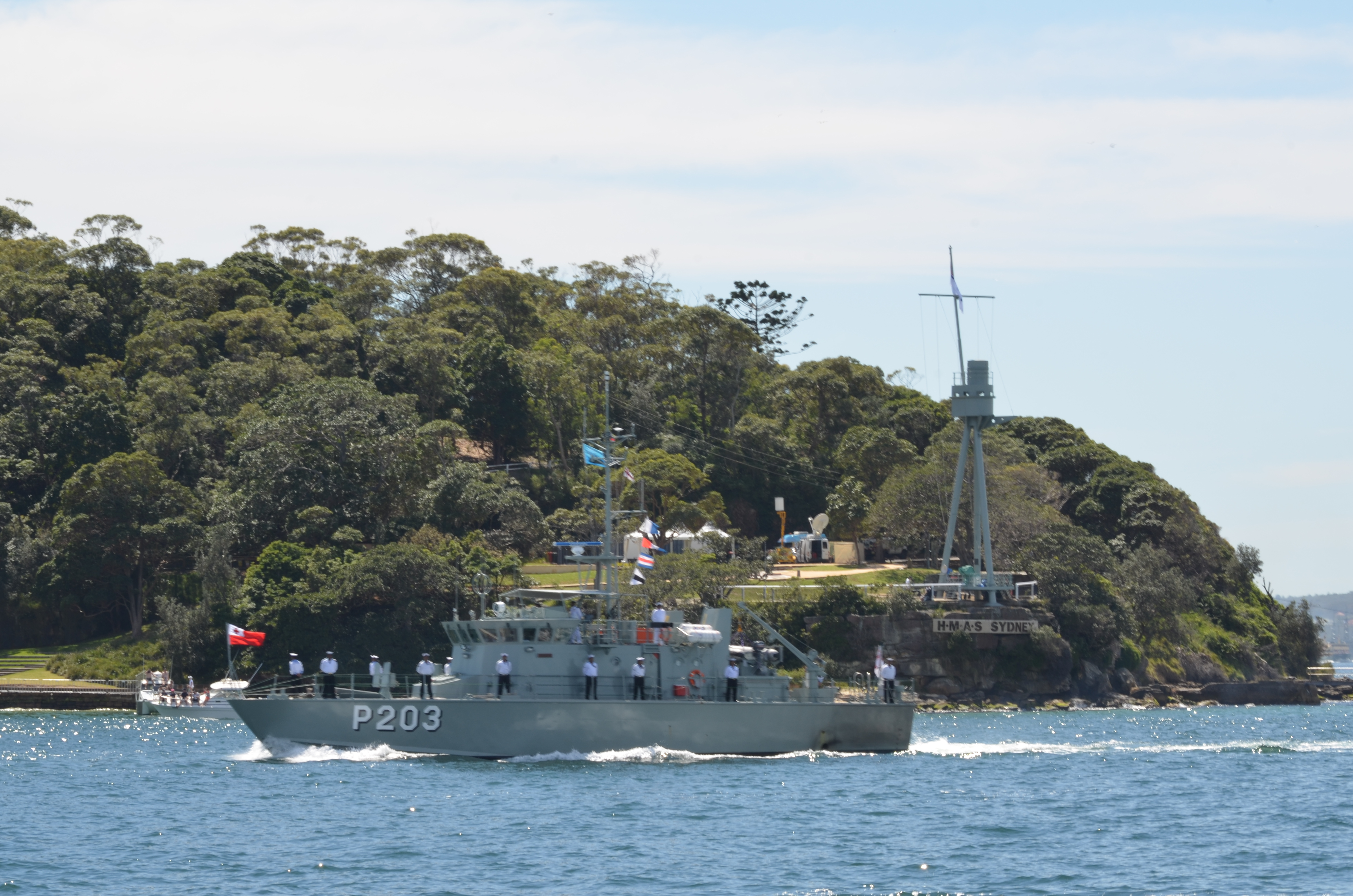 Photographs taken during day 3 of the Royal Australian Navy International Fleet Review 2013. The Tongan patrol boat Savea underway on Sydney Harbour.